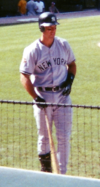 Tino Martinez of the New York Yankees departing from the on-deck circle during a August 25, 2001 game at Edison International Field of Anaheim. This photograph was taken using an unspecified disposal 35mm camera and scanned using a Canon CanoScan LiDE 60 scanner